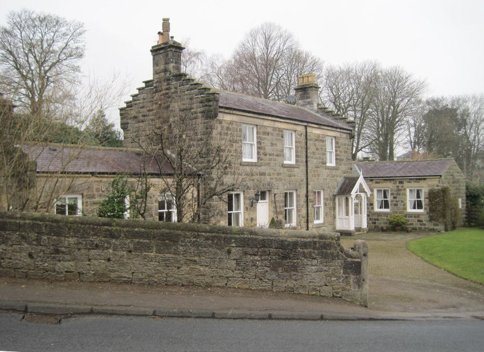 Dacre railway station site, YorkshireOpened in 1862 by the North Eastern Railway on its line from Harrogate to Pateley Bridge, this station closed to passengers in 1950. Forecourt.